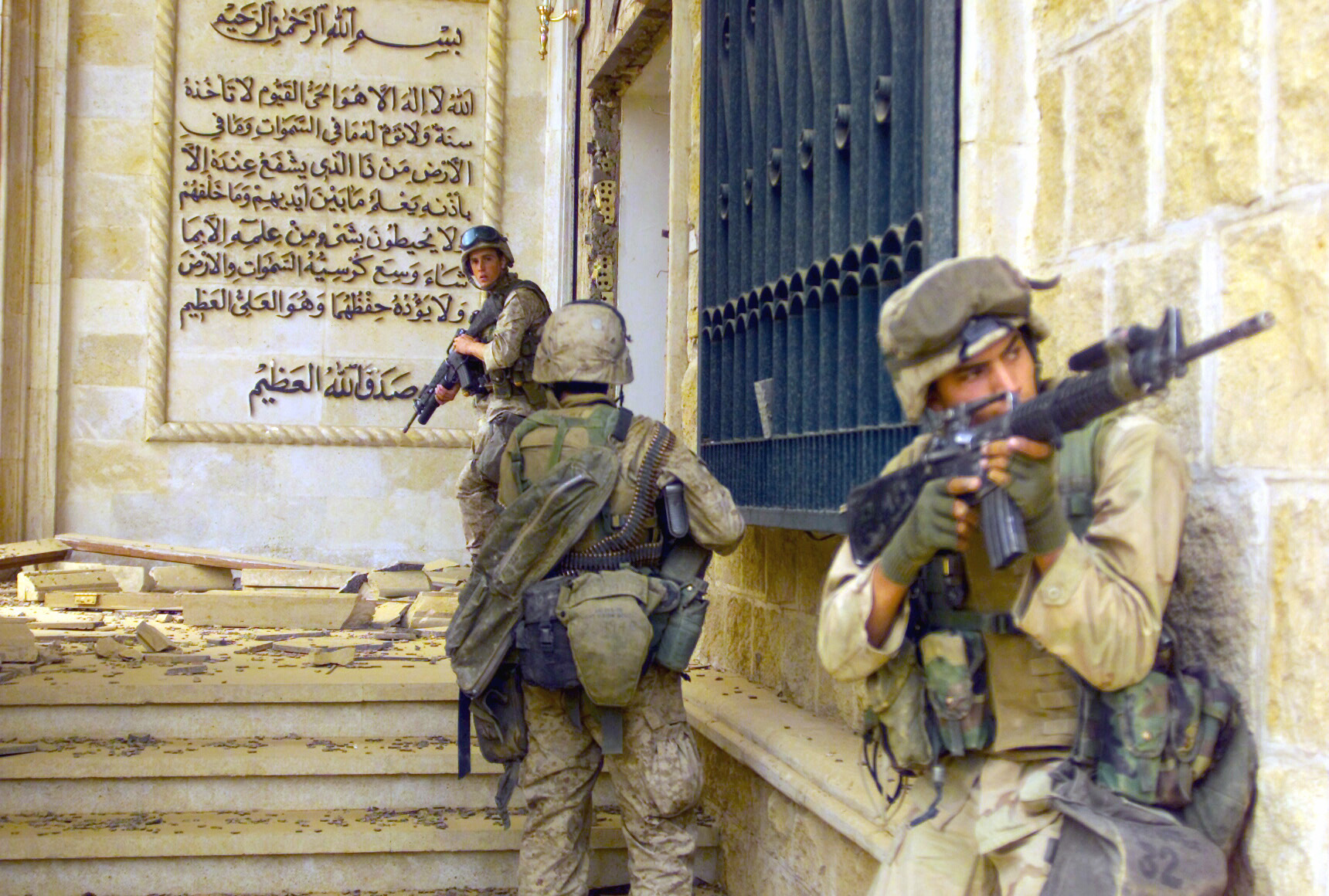 US Marines Corps (USMC) Marines from the 1st Battalion, 7th Marines (1/7), Charlie Company, Twentynine Palms, California (CA), cover each other with 5.56 mm M16A2 assault rifles as they prepare to enter one of Saddam Husseins palaces in Baghdad as they takeover the complex during Operation Iraqi Freedom.